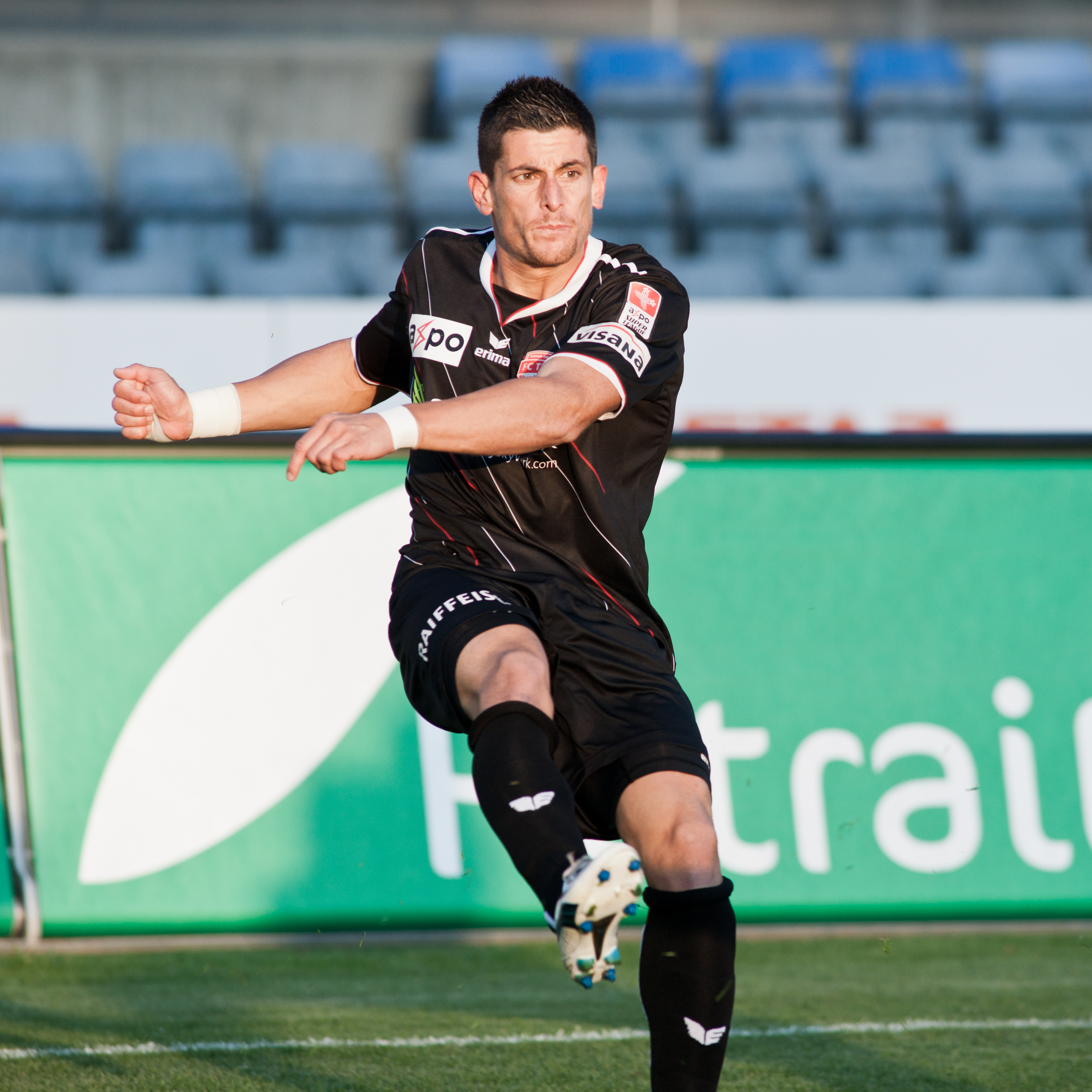 The making of this document was supported by Wikimedia CH.(Submit your project!) For all the files concerned, please see the category Supported by Wikimedia CH. Lausanne Sport vs. FC Thun - 22.10.2011